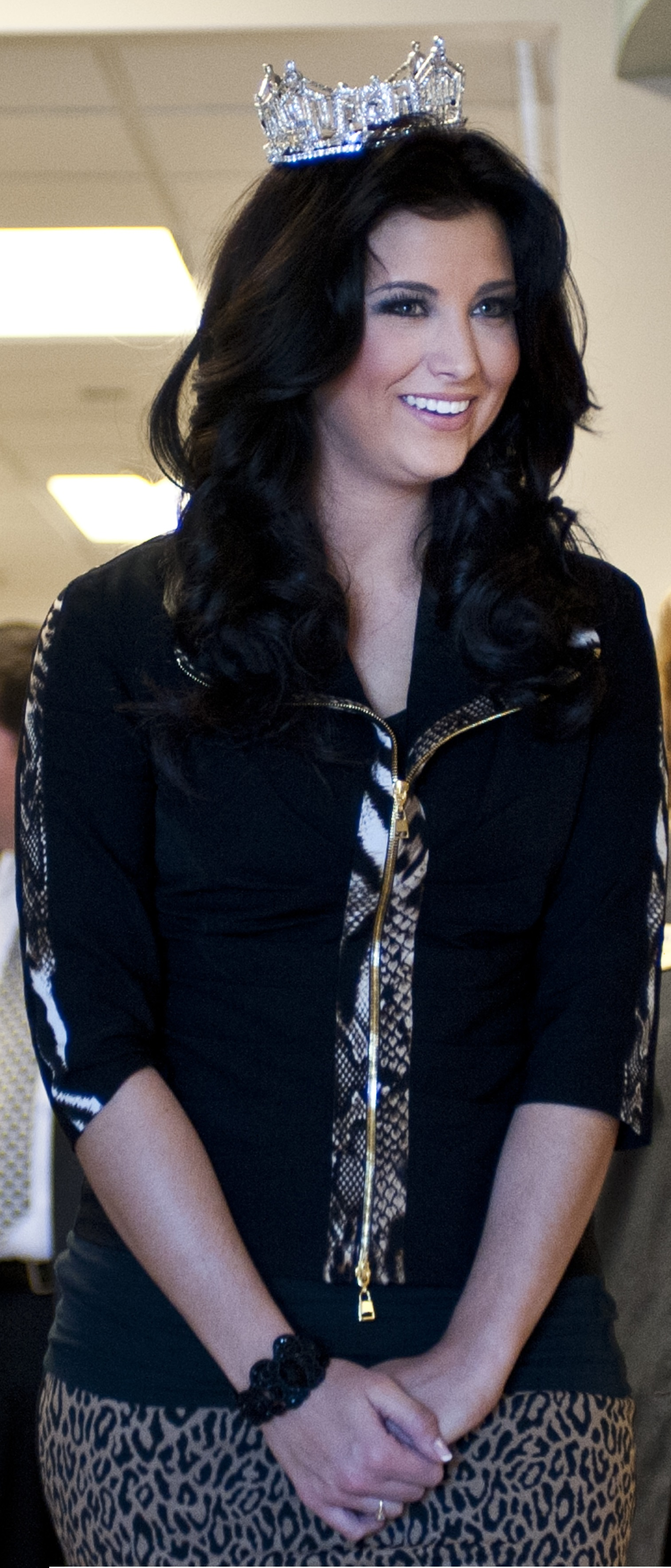 Laura Kaeppeler, Miss America 2012, visits the Child Development Center during a tour of Nellis Air Force Base, Jan. 8, 2013. Kaeppeler visited Nellis to show her support for U.S. military service members. (U.S. Air Force Photo by Airman 1st Class Jason Couillard)